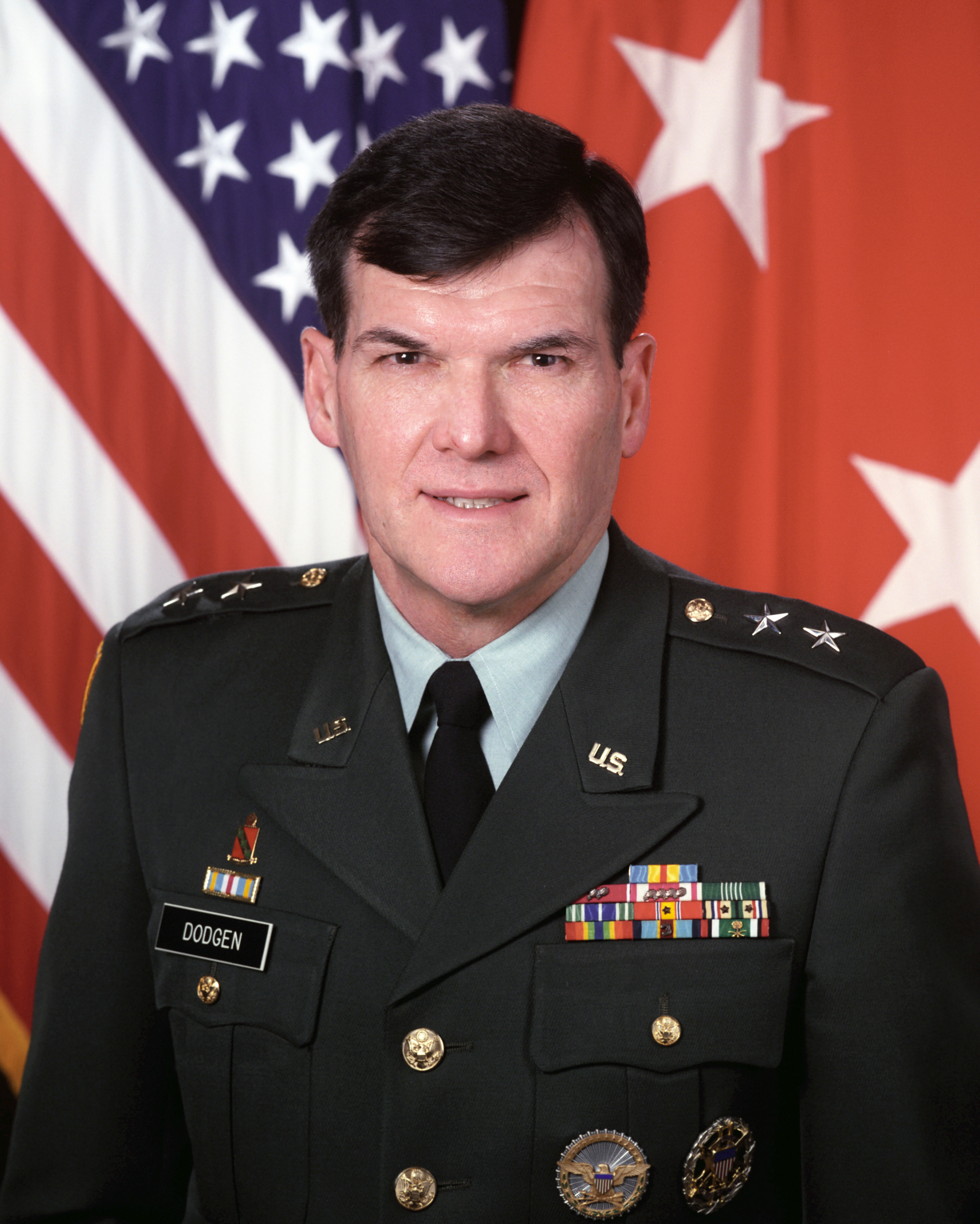 Larry J. Dodgen from [1]